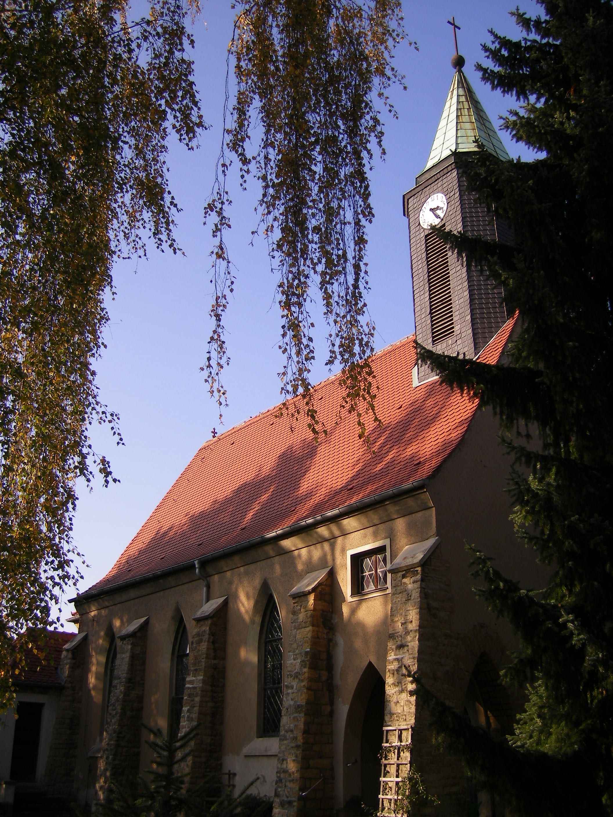 Church in Meuselwitz-Mumsdorf near Altenburg/Thuringia